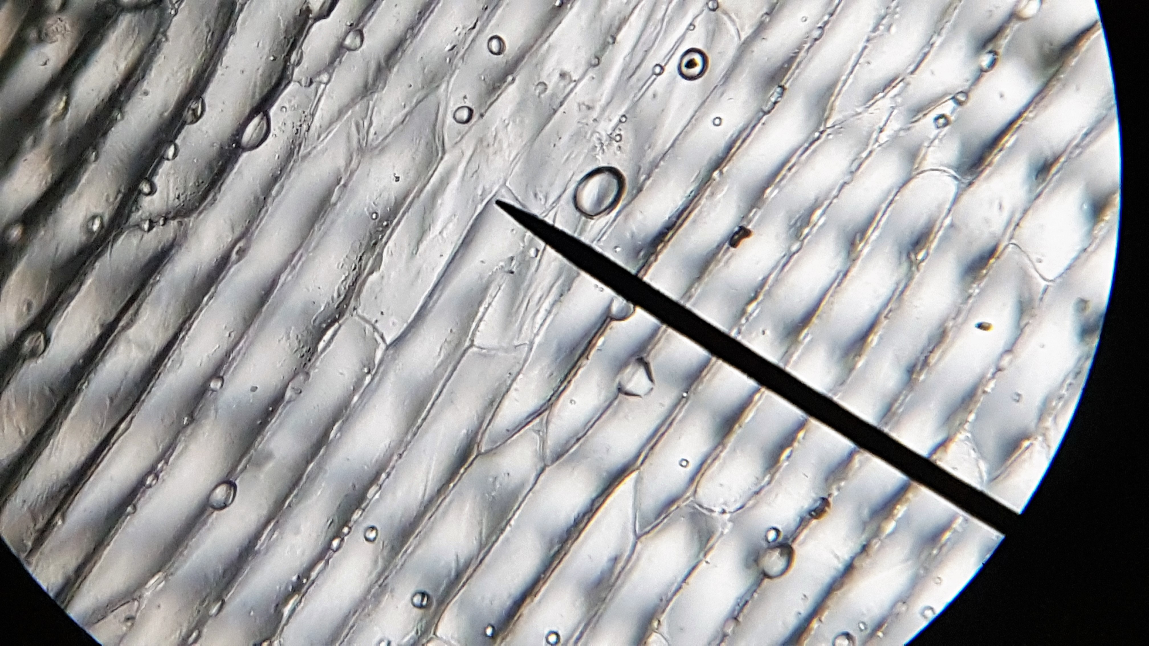 Cell wall: observation on the optical microscope of the onion epidermis; the nuclei are absent